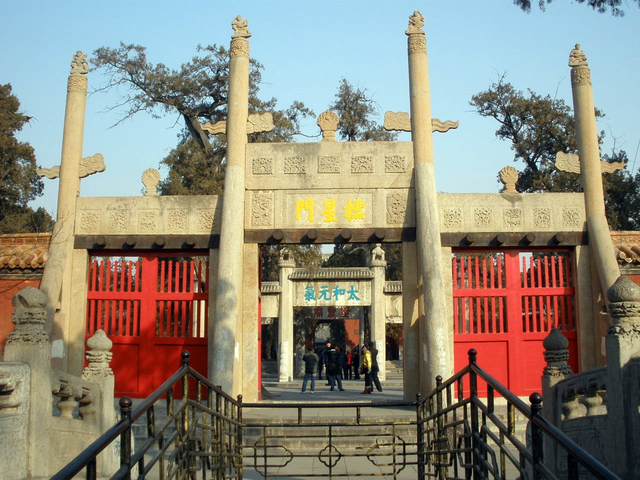 Lingxing Gate of Qufu Confucian Temple, Qufu